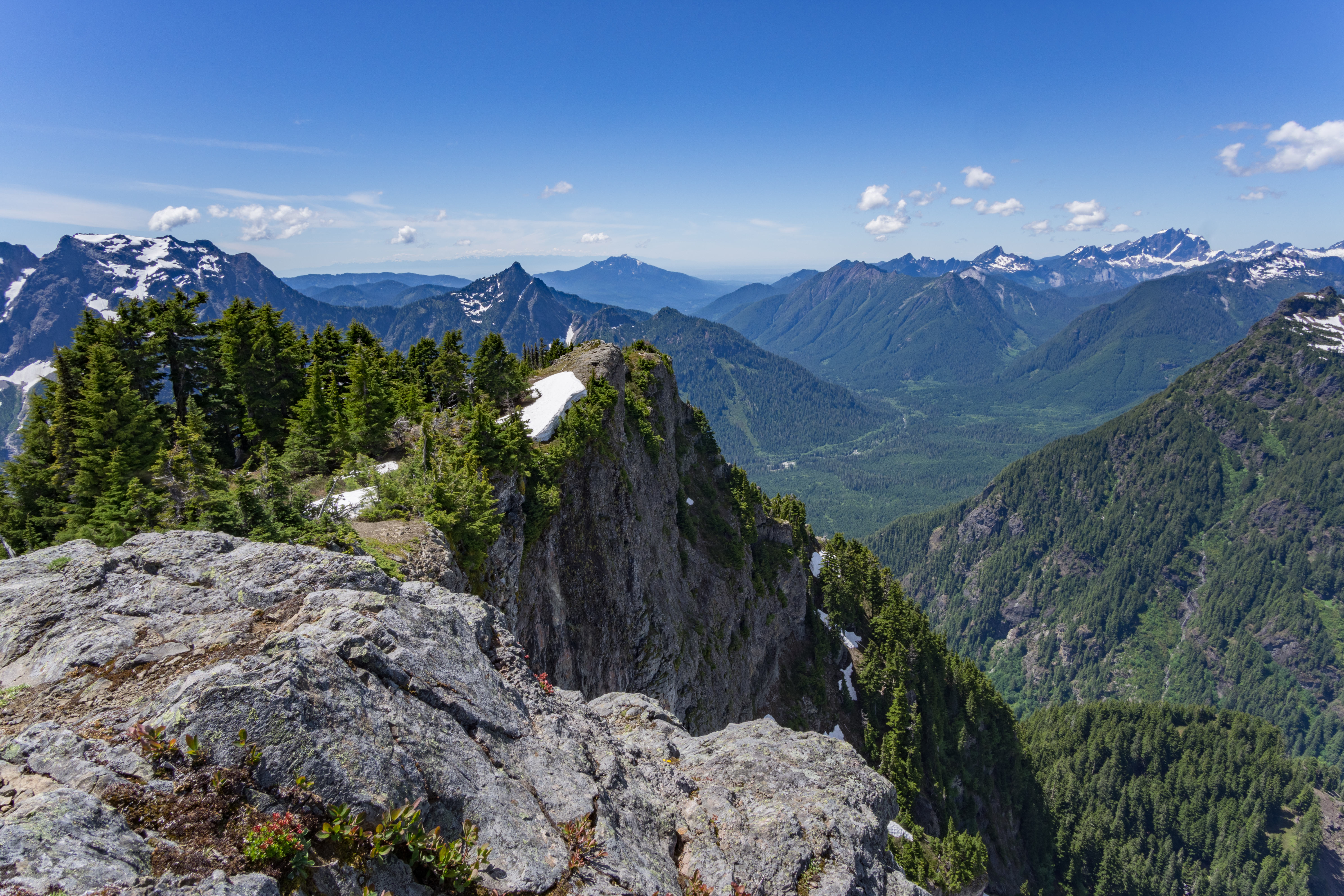 Mount Dickerman, United States